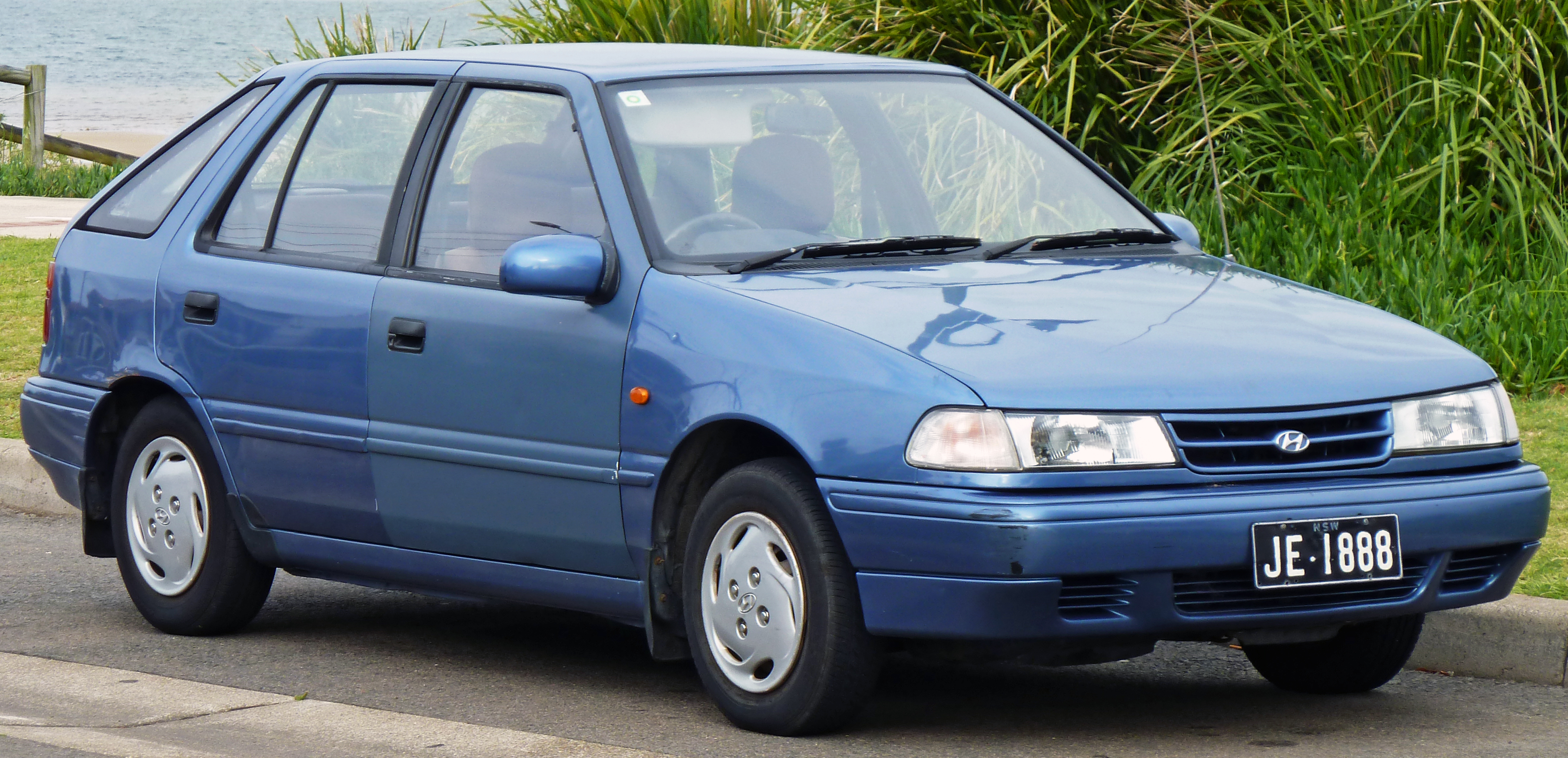 1994 Hyundai Excel (X2) LS 5-door hatchback. Photographed in Sans Souci, New South Wales, Australia.